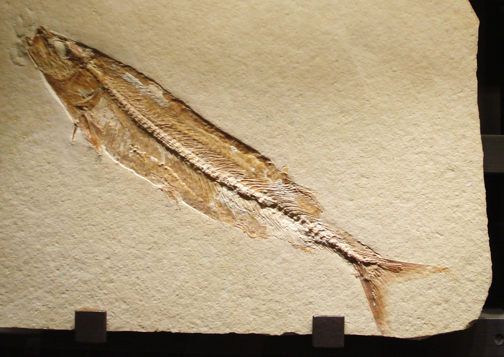 fossil allothrissops